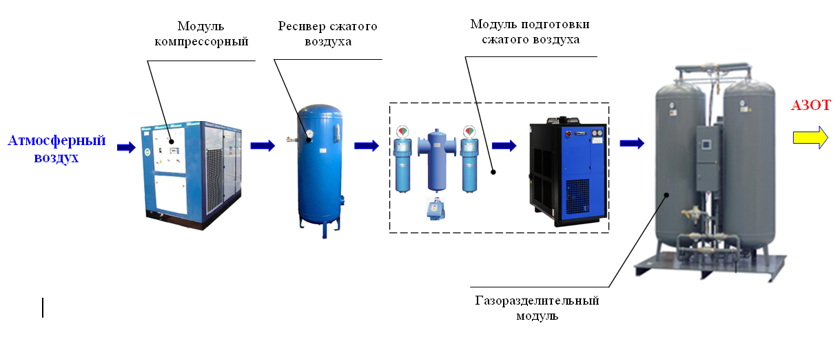 Adsorption scheme